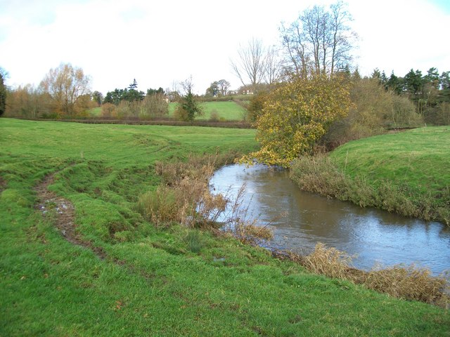 River Stour near Harpitts Lane